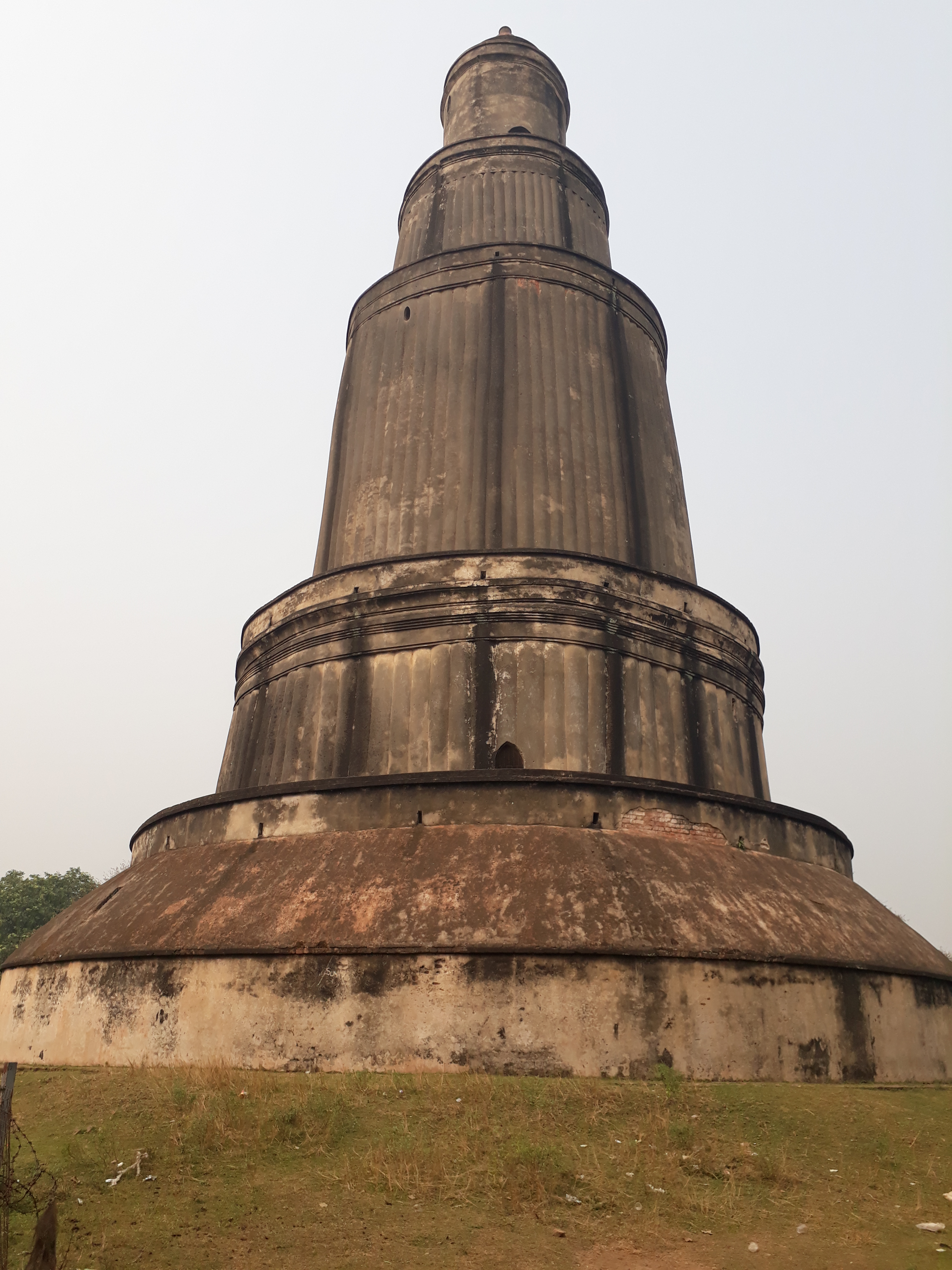 The Minar situated in Pandooh Hooghly. beside the G.T. Road. established in Sultani Era